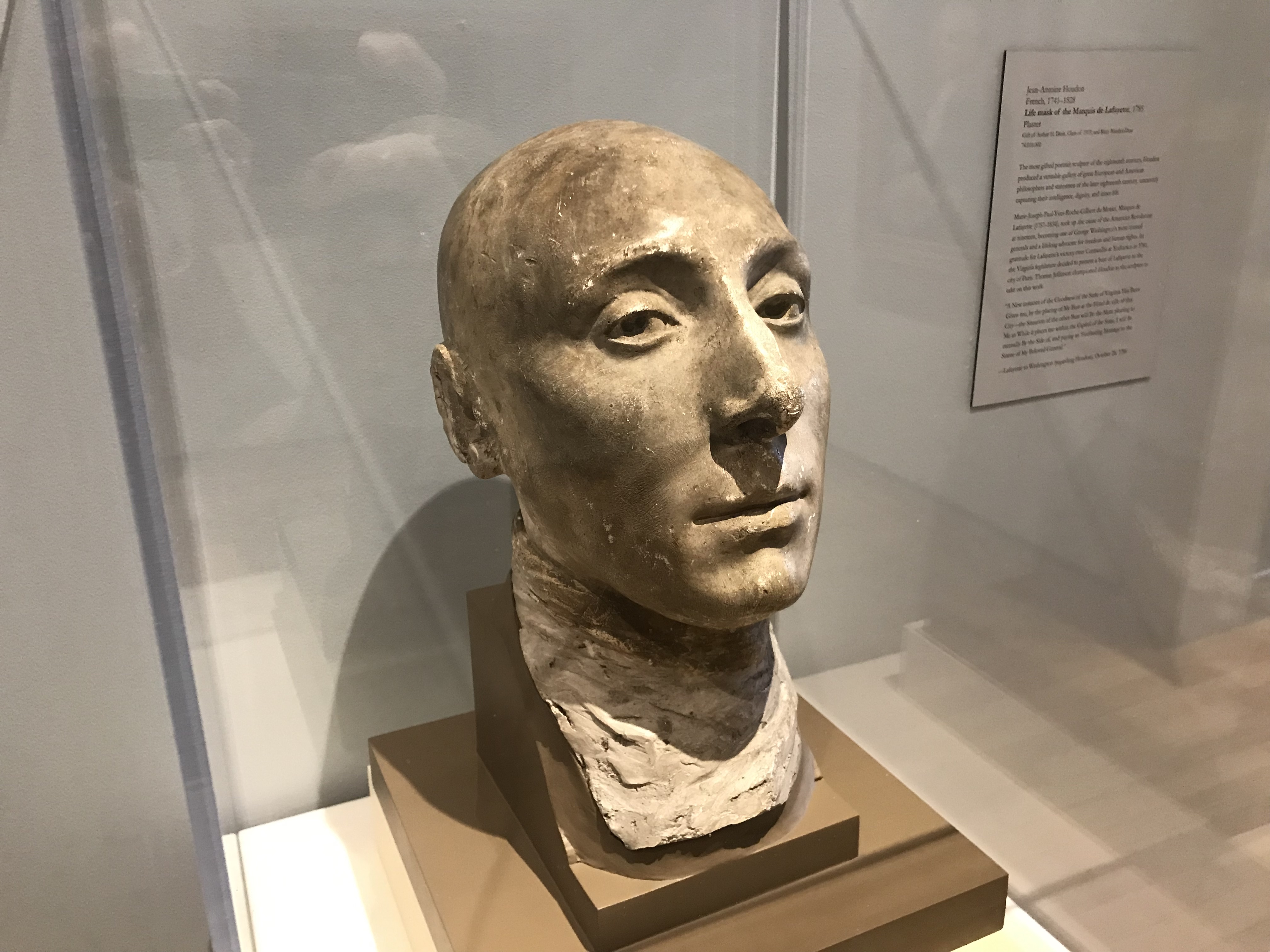 A life mask of Gilbert du Motier, Marquis de La Fayette (plaster) made in 1785 by Jean-Antoine Houdon.